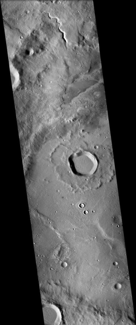 Part of flammarion Crater, as seen by CTX